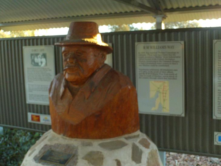 A monument and history of RM Williams at his birthplace of Jamestown, South Australia